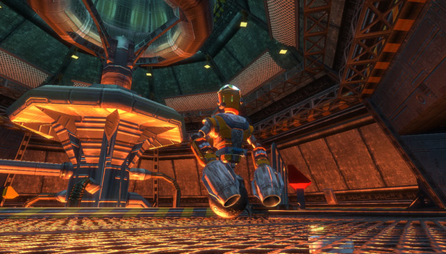 RoboBlitz screenshot. Released in 2006, the game was developed by Naked Sky Entertainment.